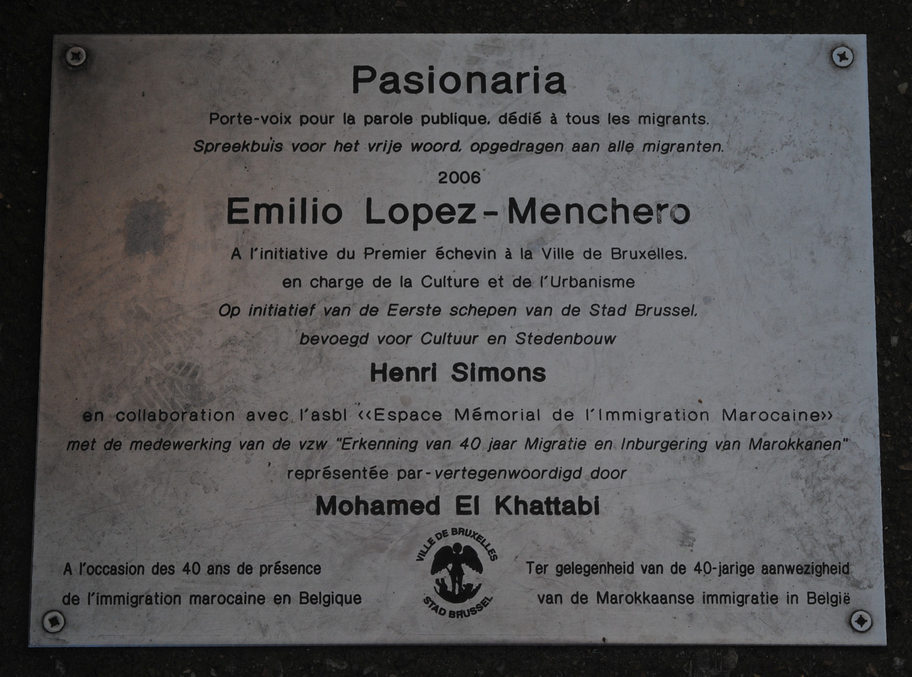 Plaque adjacent to Pasionaria, an artwork by Emilio Lopez-Menchereo, in Brussels, Belgium, subtitled "Mouthpiece for public speaking. dedicated to all migrants". It also serves as an ear trumpet.